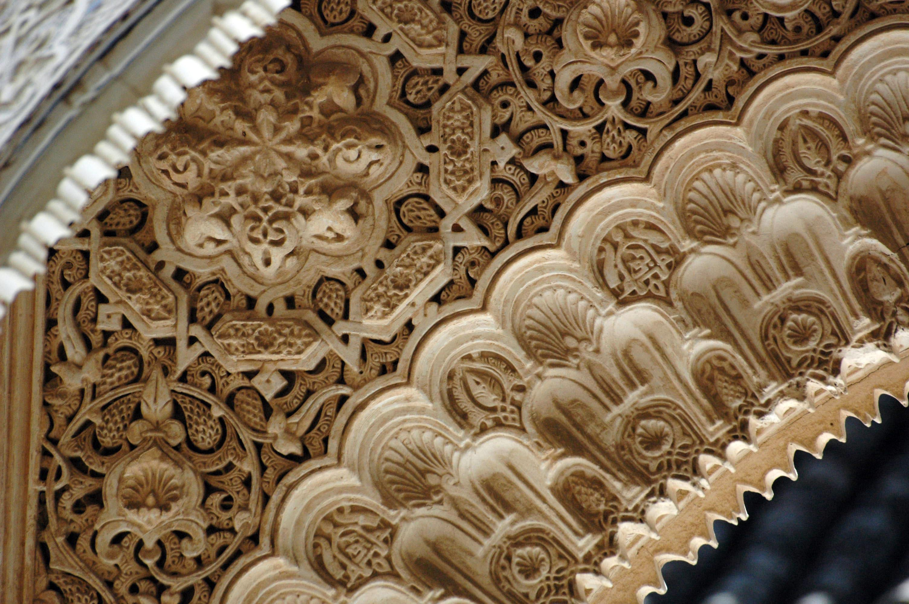 Fine architectural detail at the Alhambra Palace in Southern Spain.Archway at the Alhambra Palace